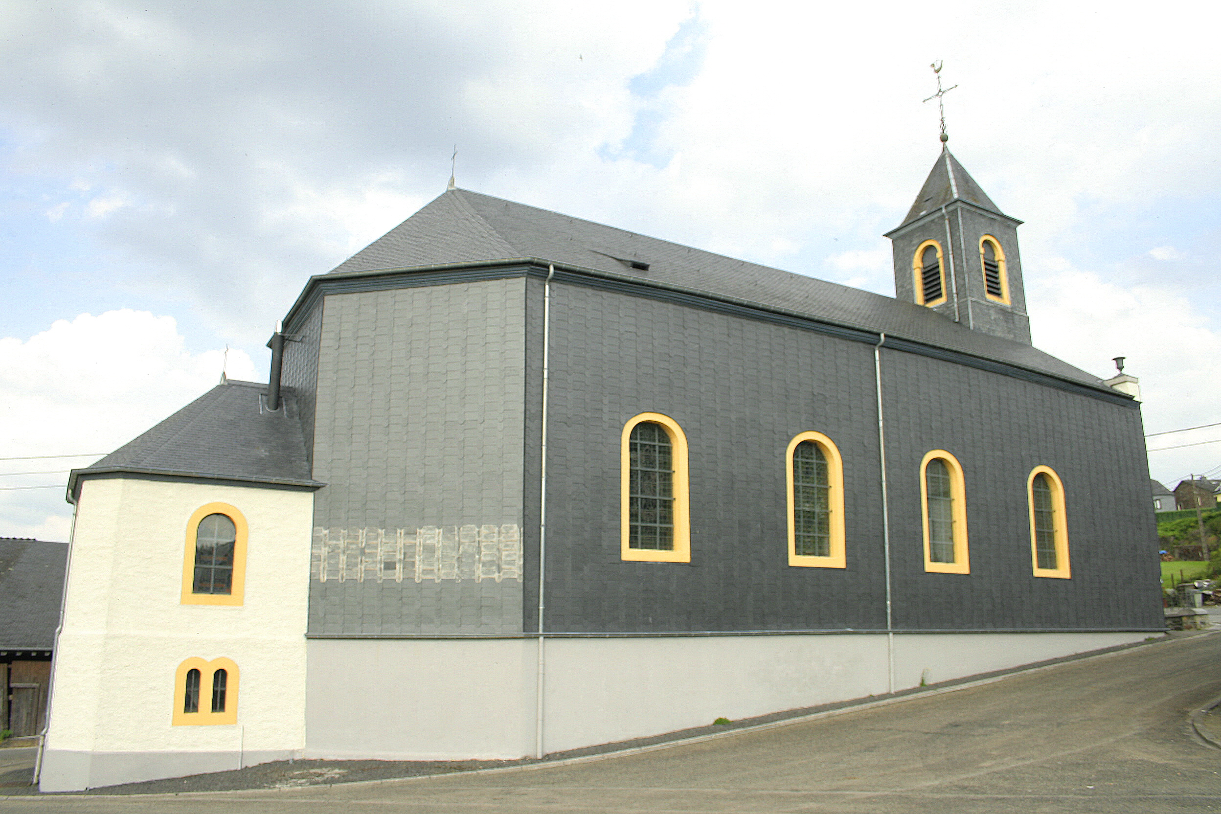 Mortehan (Belgium), the St. Hubert church (1840).